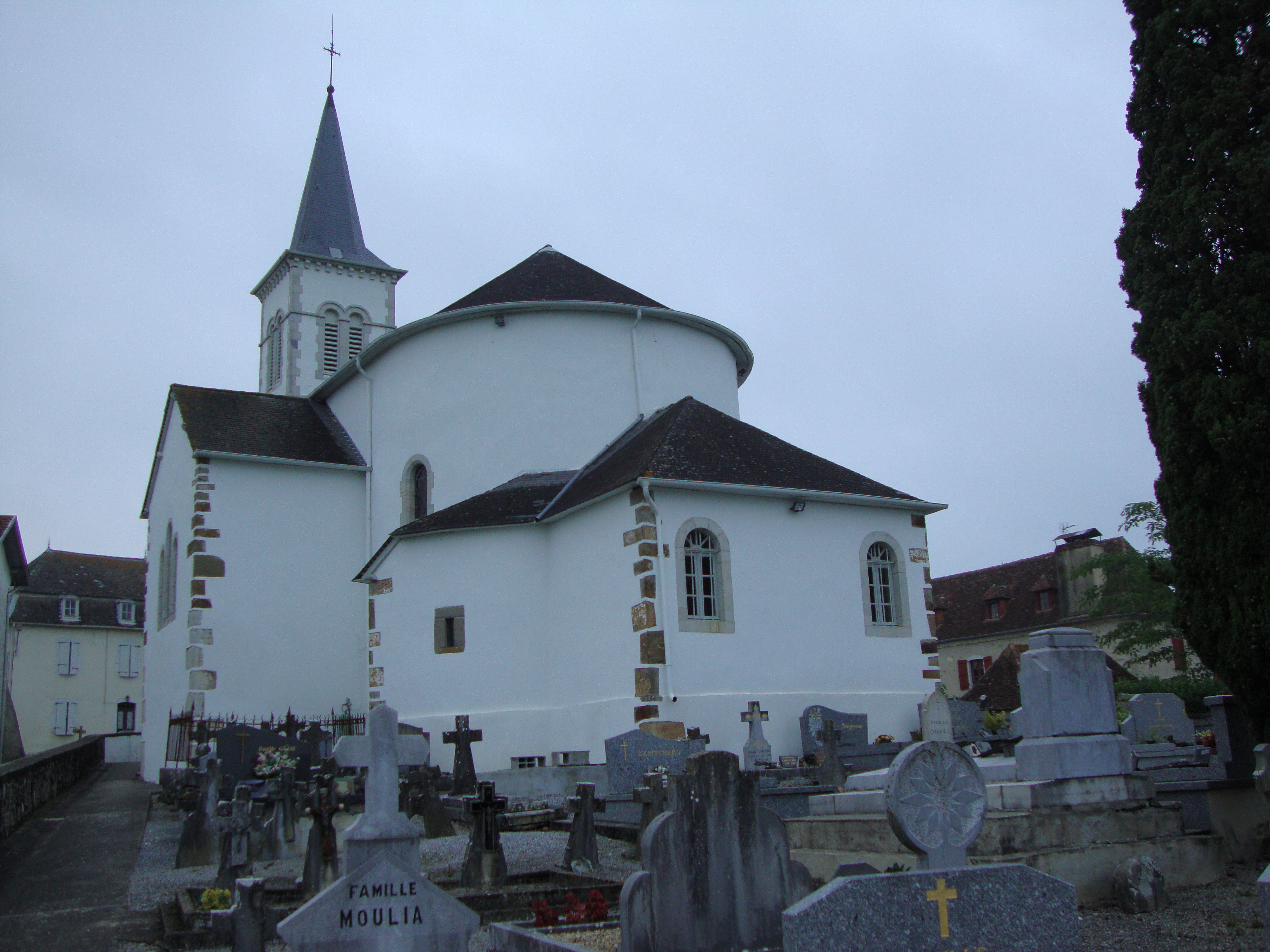 Etcharry (Pyr-Atl, Fr) église with a part of the cimetière, where one of its few discoidal steles is visible.